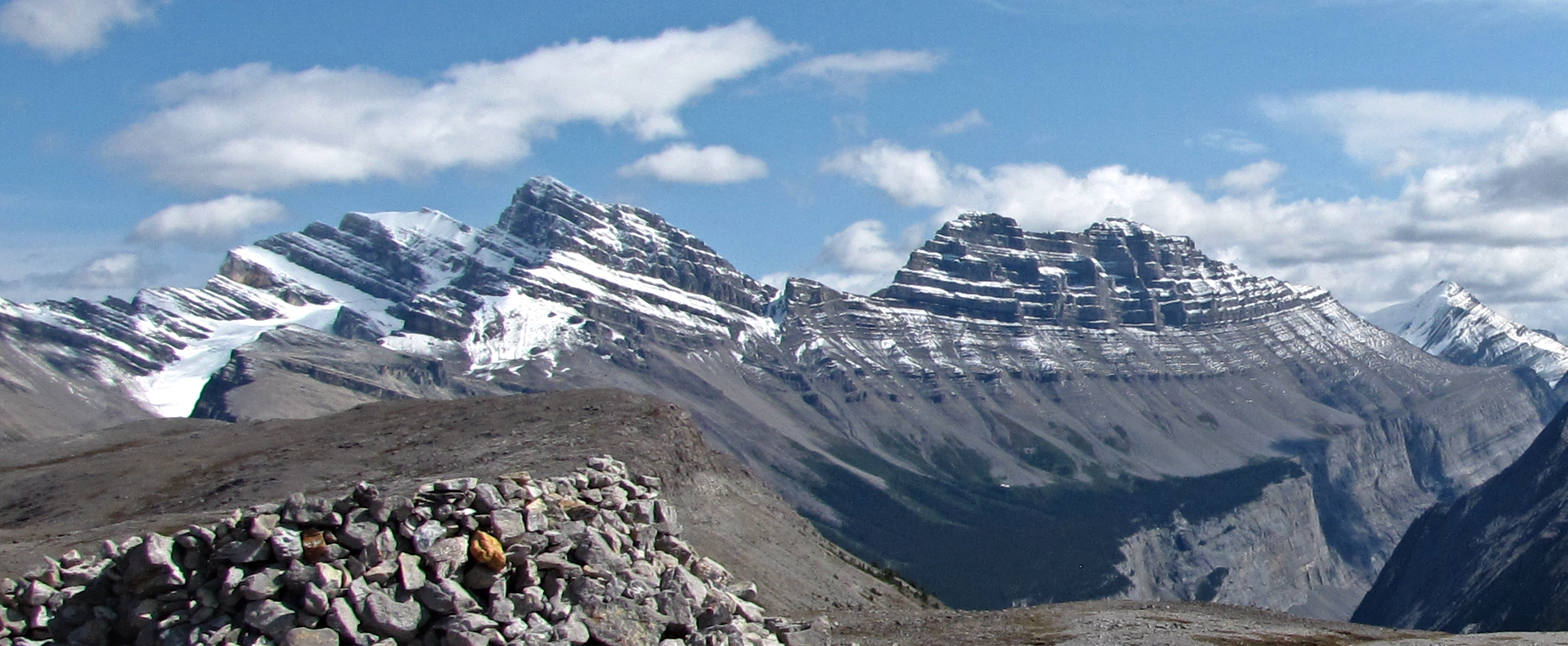 Cirrus Mountain seen from Parker Ridge, Banff National Park, Canada